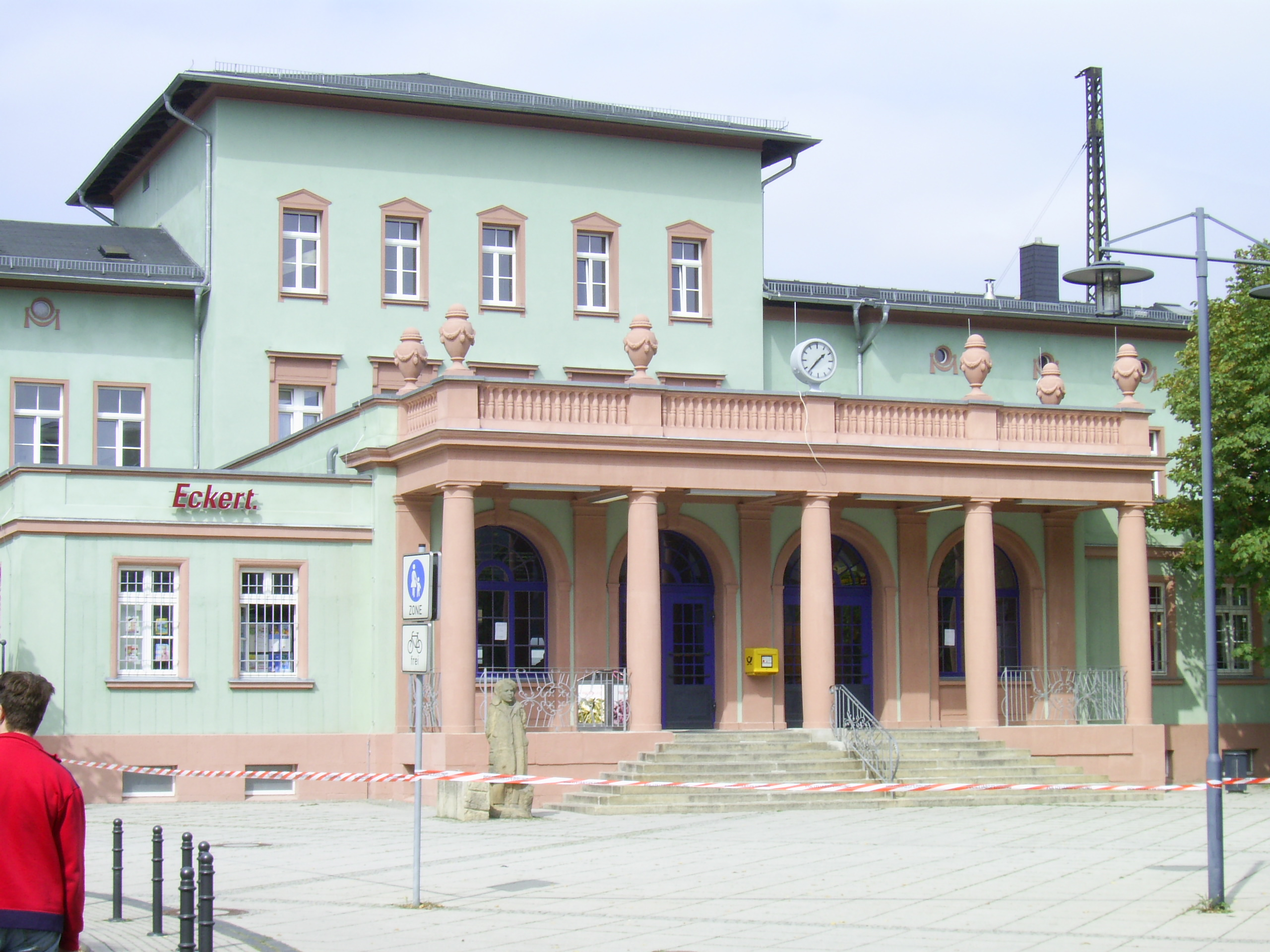 Main train station in Naumburg (Saale)